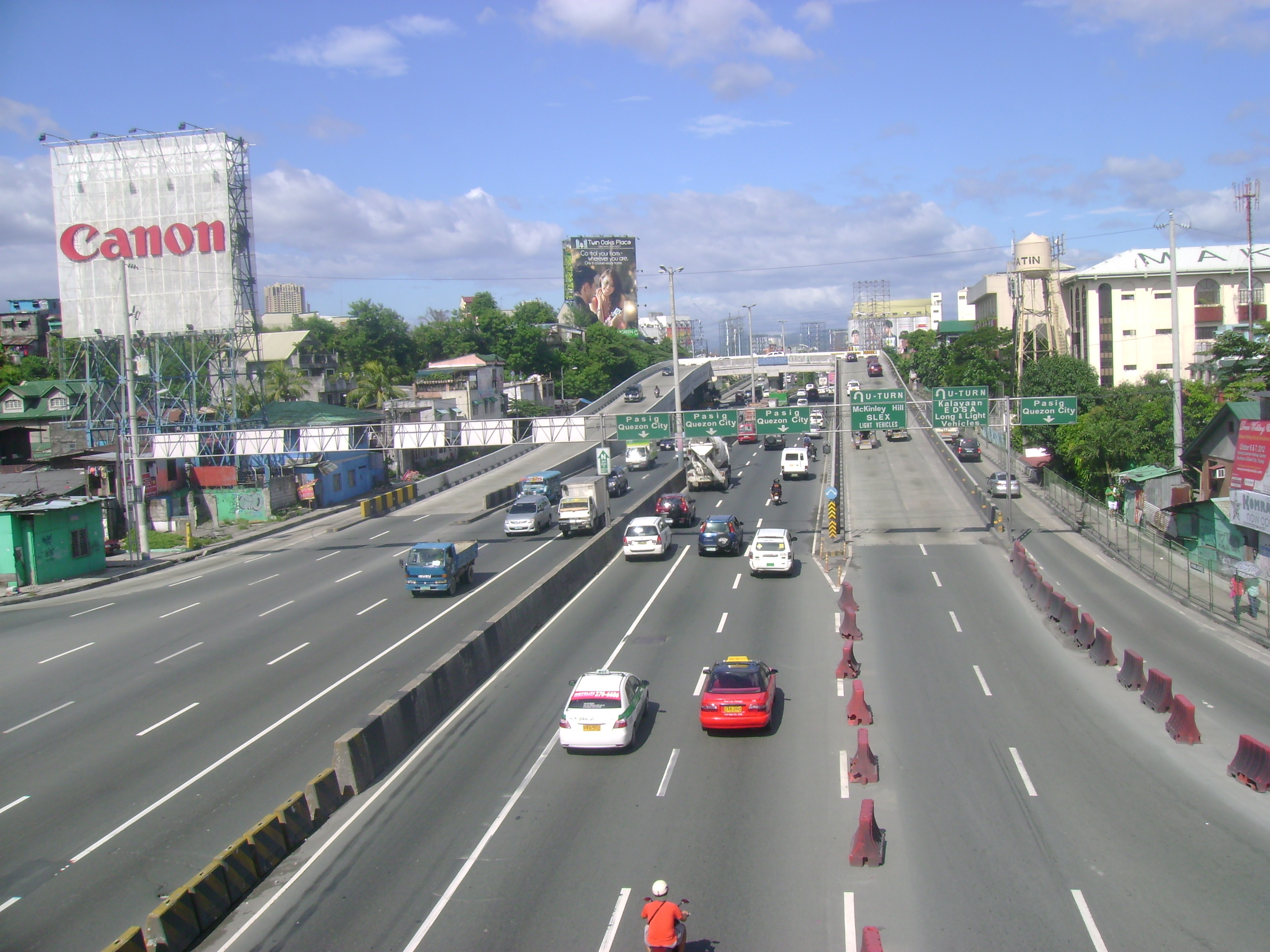 Shot of C-5/Kalayaan in Makati